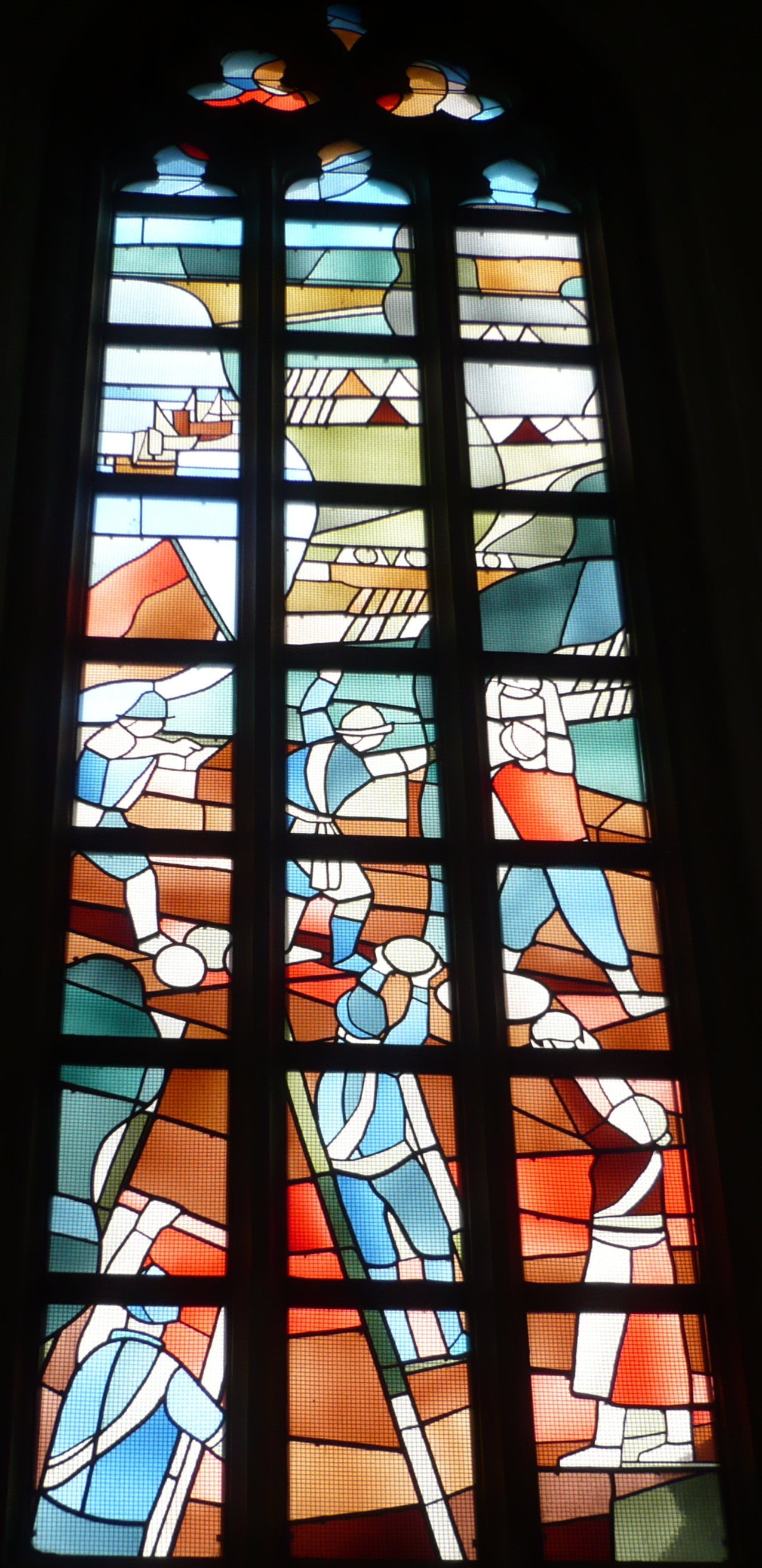 Stained glass window on East side, Grote Kerk, Haarlem. This window was made in 1980, designed by Friso ten Holt and made by workshop Bogtman. It shows the siege of Haarlem of 1573. Above left are ships on the Haarlemmermeer. Below right, the female figure represents Kenau. The window was donated by local businessmen with support from the city council.